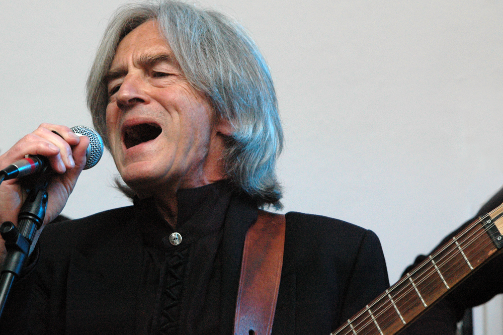 Marek Alaszewski - leader of rock band Klan during a concert at The Nowolipki Art Gallery in Warszawa, Poland